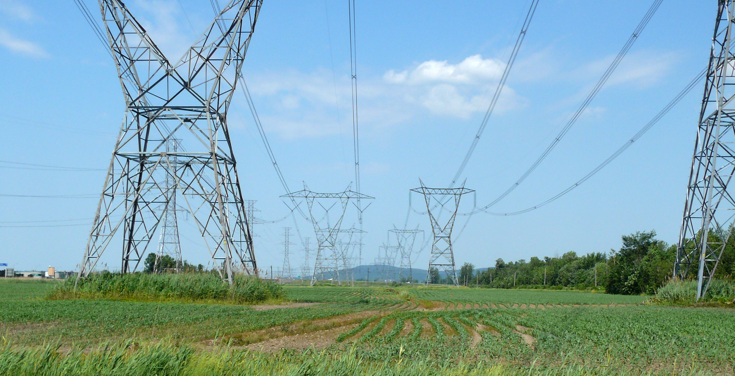 735 kV power lines outside of St-Jean-Sur-Richelieu, Qc.